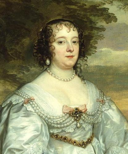 Charlotte Stanley, Countess of Derby (1599-1664). Detail of: James Stanley, Lord Strange, Later Seventh Earl of Derby, with His Wife, Charlotte, and Their Daughter